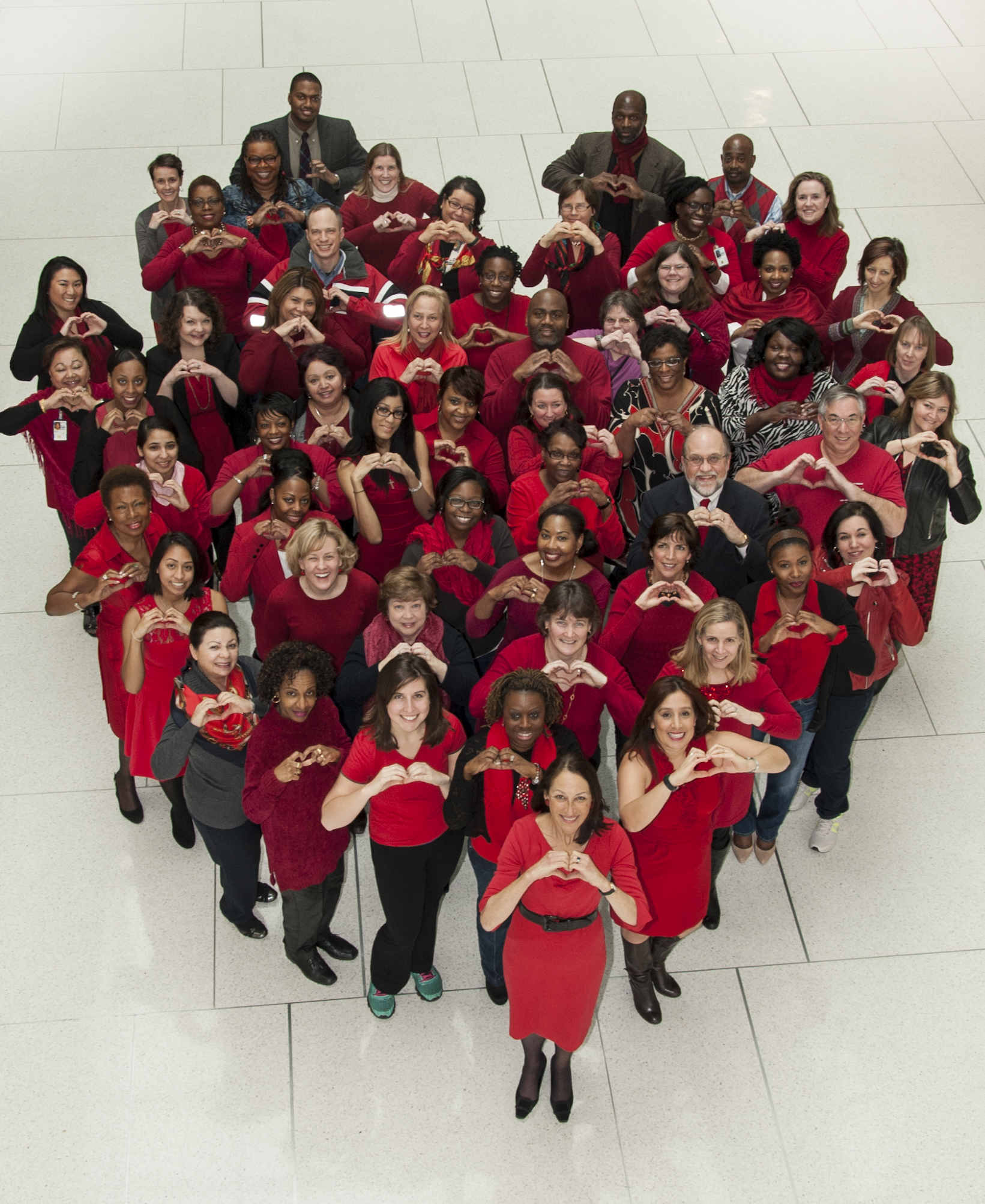 Feb. 6, 2015; Commissioner Margaret A. Hamburg, M.D. (front center), joins FDA colleagues at the agency's White Oak headquarters in Silver Spring MD, in recognition of National Wear Red Day and National Heart Health Month. For more information visit FDA's website. This photo is free of all copyright restrictions and available for use and redistribution without permission. Credit to the U.S. Food and Drug Administration is appreciated but not required. For more privacy and use information visit: FDA photo by Michael J. Ermarth